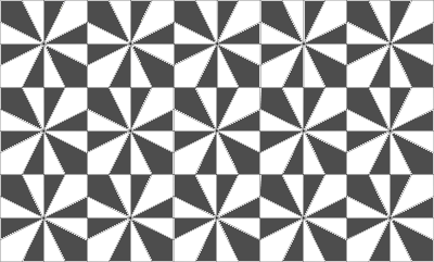 Traditional Litema pattern. Drawn after examples in Paulus Gerdes: Geometry from Africa: mathematical and educational explorations, 1999, pg. 91.